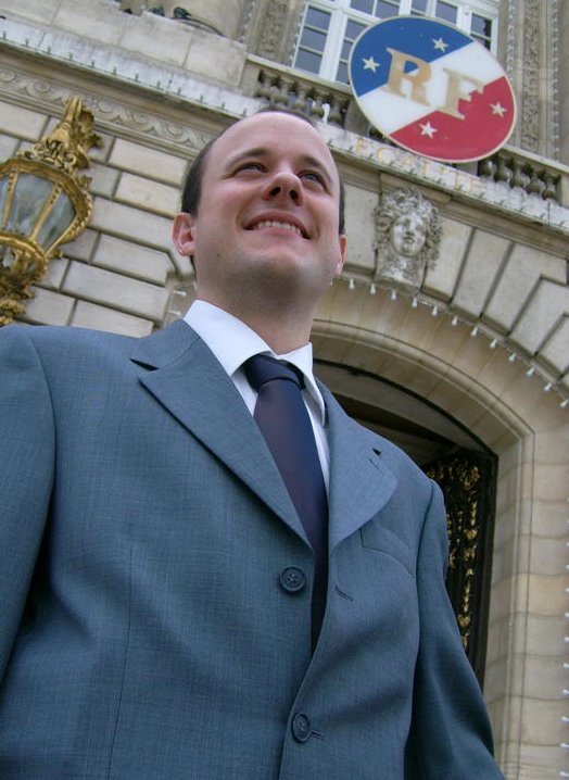 Sam Hocevar's Debian project campaign photo.